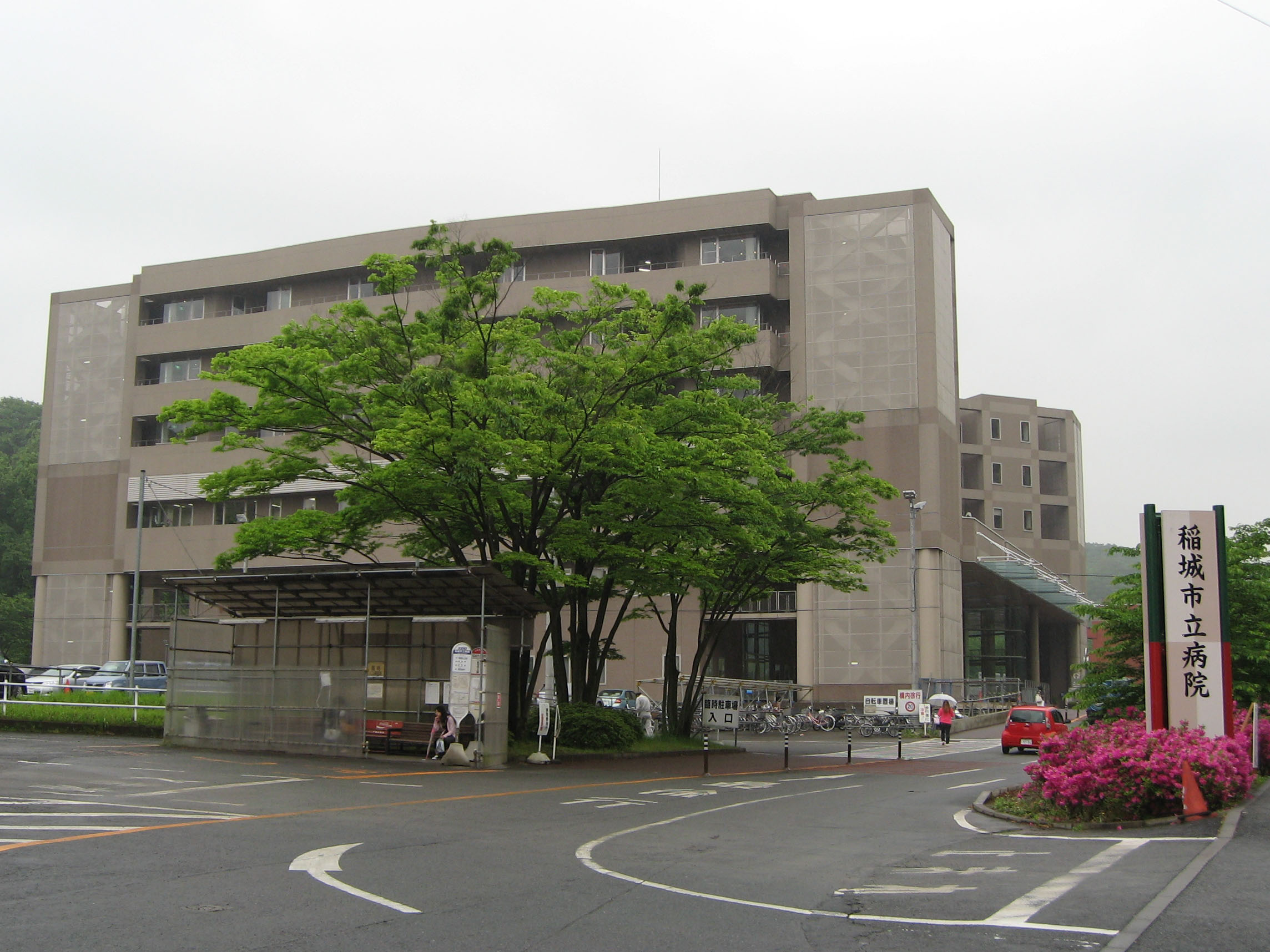 Inagi Municipal Hospital in Inagi-City, Tokyo, Japan.